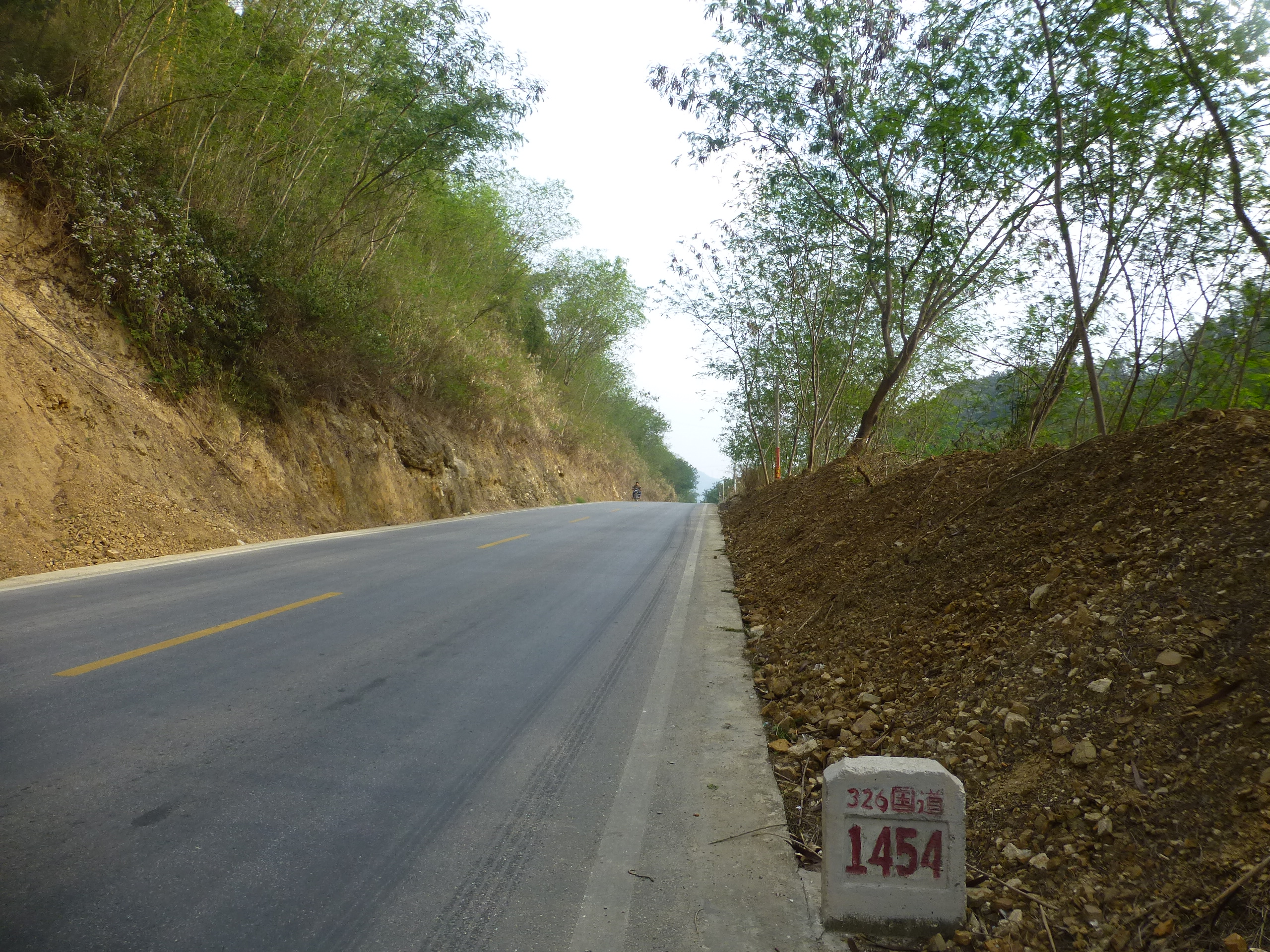 China National Highway 326 (1454 km mark) in the valley of the Red River in Lianhuatan Township (Hekou County, Yunnan), SE of Lianhuatan township center.